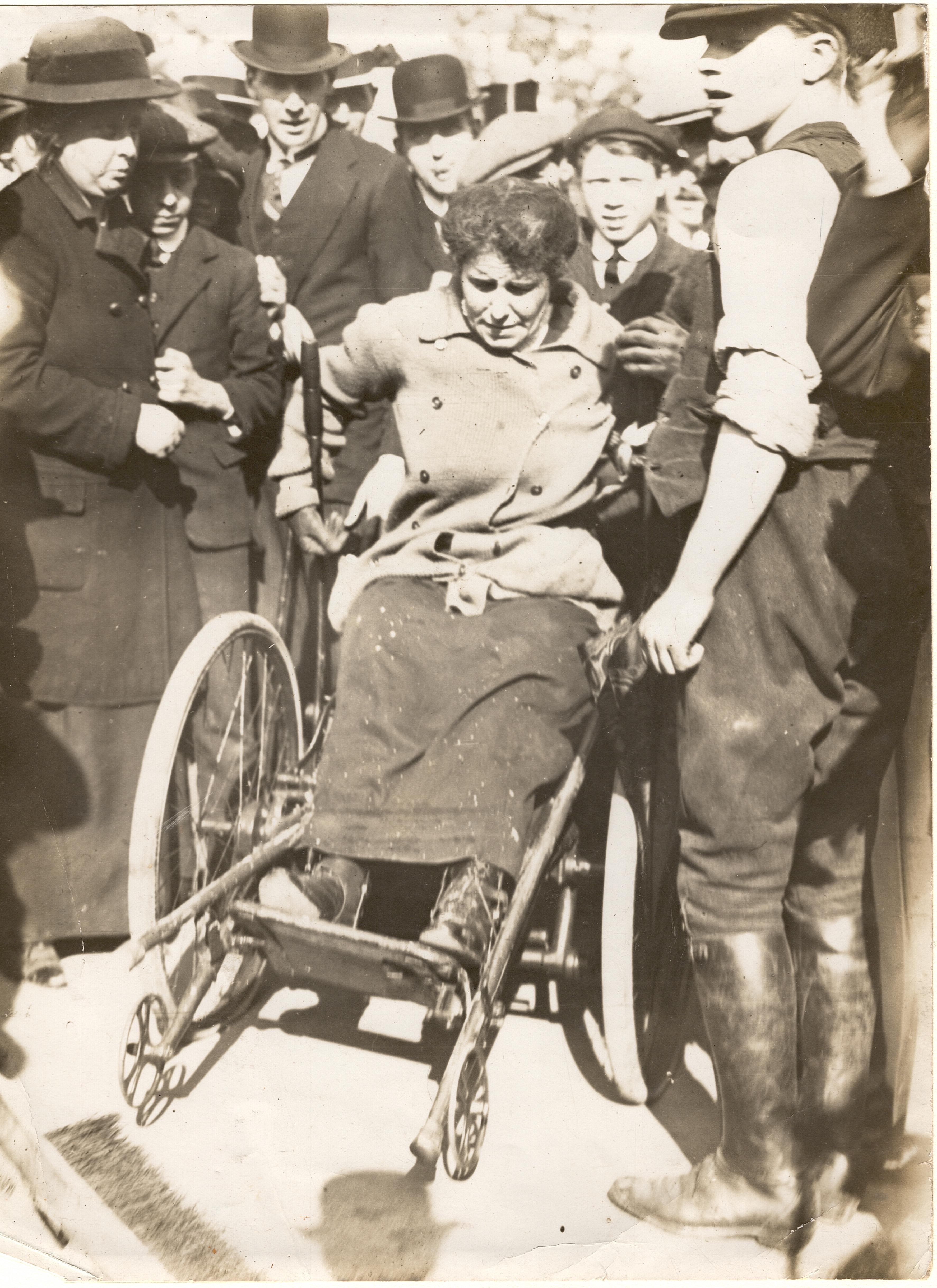 Rosa May Billinghurst twl 2009 02 043